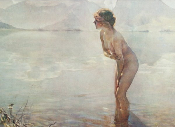 1961 reproduction of September Morn, from Gerald Carson's article "They Knew What They Liked" in American Heritage (via Museum of Hoaxes). Original painting is from 1912